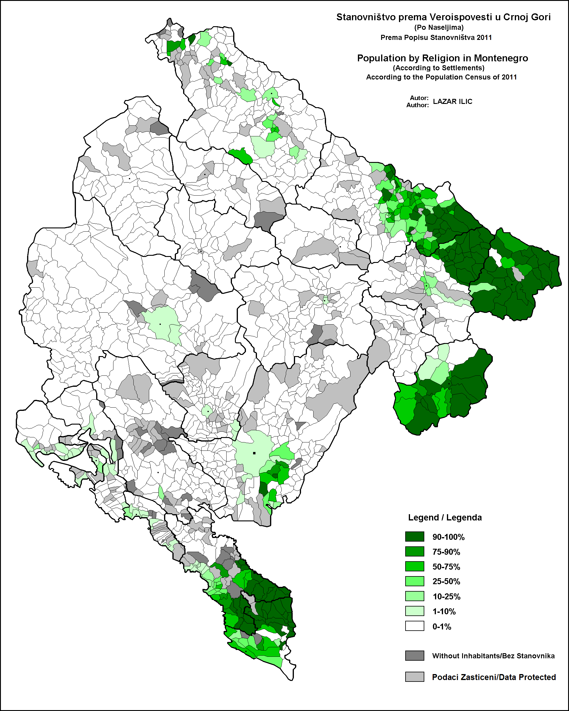 This is a map which shows the percent of Islamic Faith in Montenegro, according to the 2011 population census.